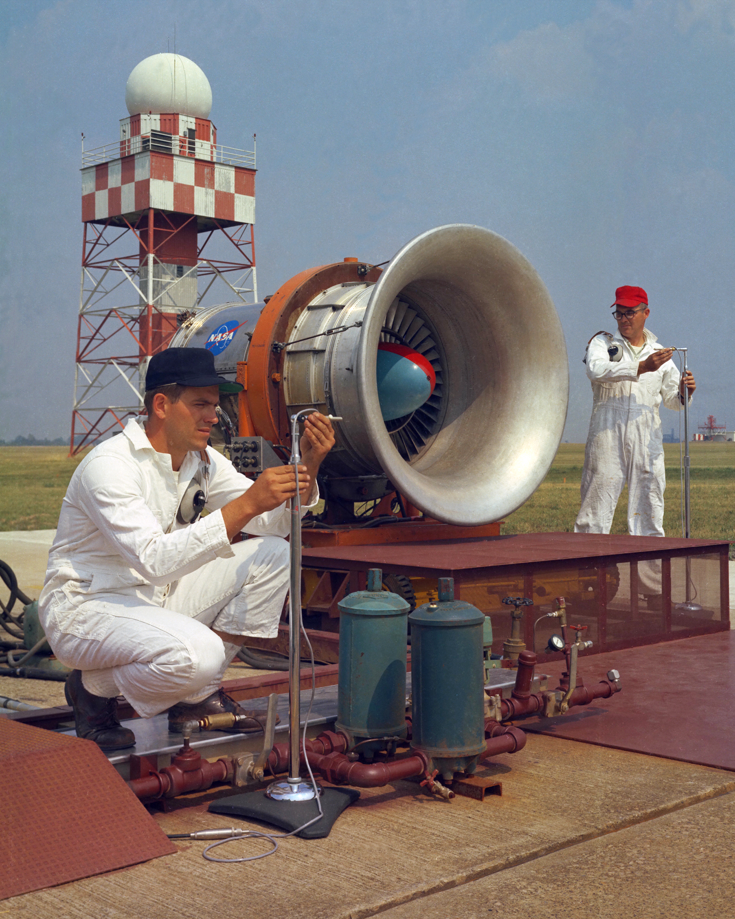 Noise Research Program on hangar apron at Lewis Research Center, now known as John H. Glenn Research Center, Cleveland, Ohio. Noise from aircraft engines presents problems for wildlife and people and NASA has undertaken various programs to reduce aircraft engine noise.